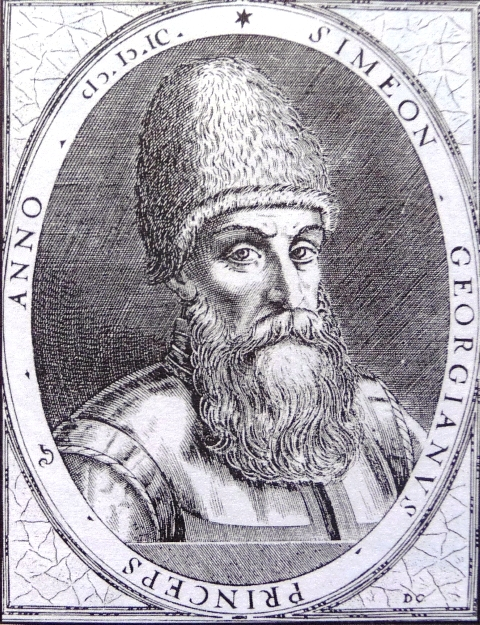 Simon I of Kartli